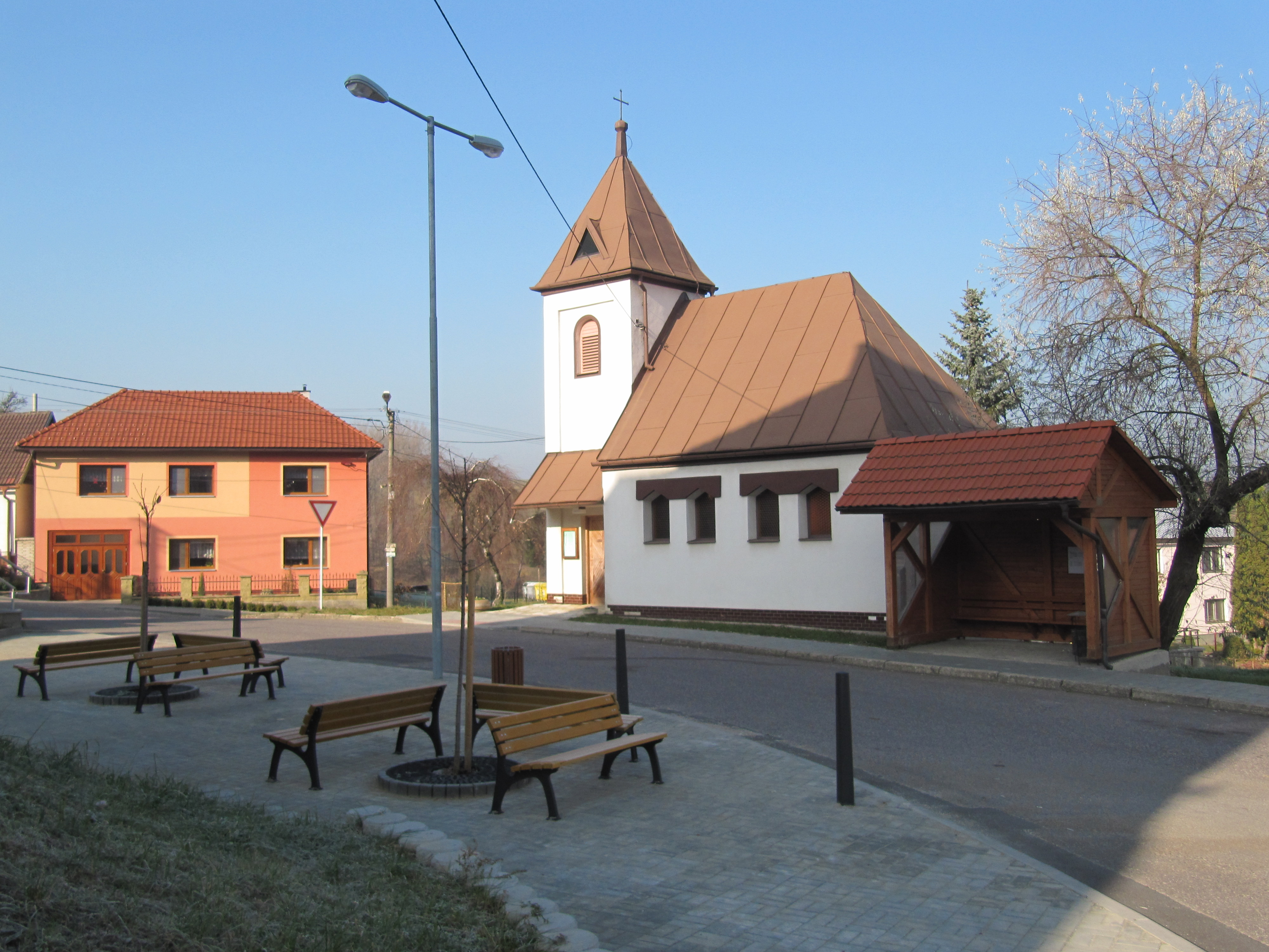 Slavičín in Zlín District, Czech Republic, part Divnice. The village square with the chapel of Our Lady Queen of Peace, 1992.